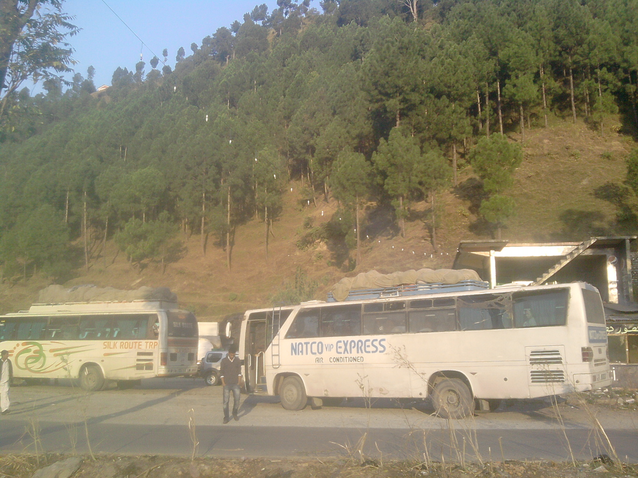 Natco bus at Bala Kot, Mansehra, Pakistan